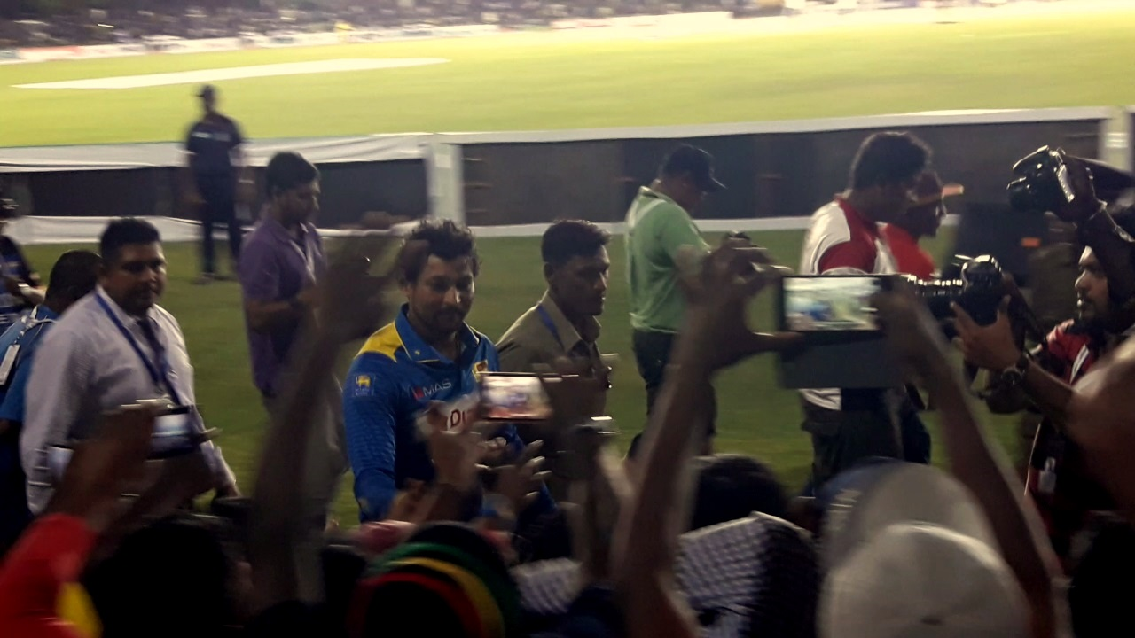 Dilshan in his last ODI at Dambulla, greetings by fans